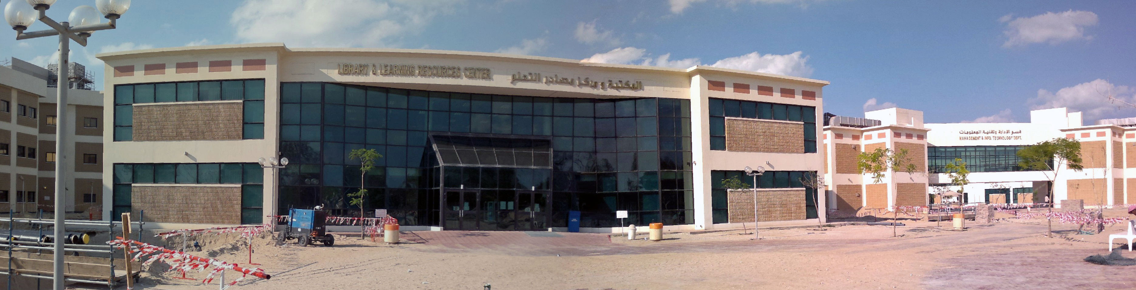 The JIC library and MIT Dept. buildings showing the infrastructure upgrade of college.